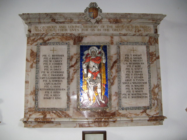 St Mary Magdalene War Memorial Plaque